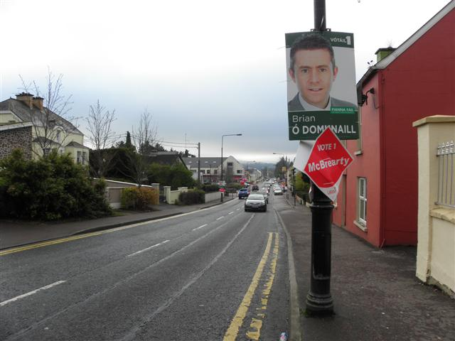 Main Street, Stranorlar, near to Srath an Urlair, Ballybofey, Drumboe and Navenny, Donegal, Ireland. Heading south-west towards the town centre and Ballybofey over the River Finn. My impression of this town is that it is not as busy as Ballybofey and this is reflected in the street parking which is free. There are several small car parks off the main road, also free. In Ballybofey the street parking is not that expensive though - 50 cents per hour I chose to park in Stranorlar because I would have been taking a series of pictures of both towns on foot and the town centres are less than 5 minutes walk.